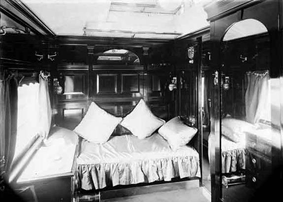 Victorian Railways Royal Train. King George VI and Queen Elizabeth. 1927. With State Car 4.